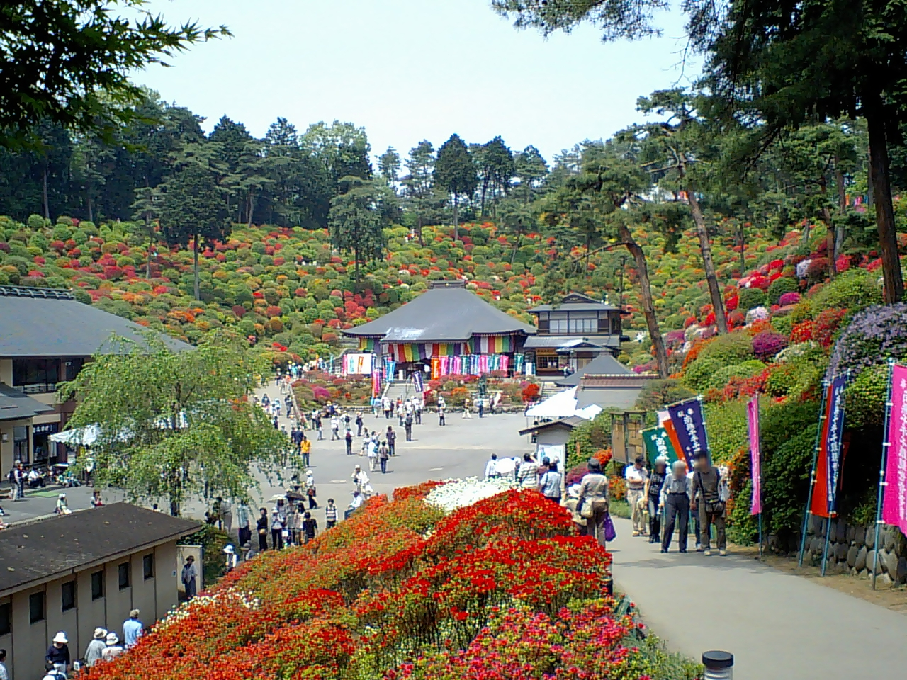 Shiofune-kannonji Temple, Ome City, Tokyo